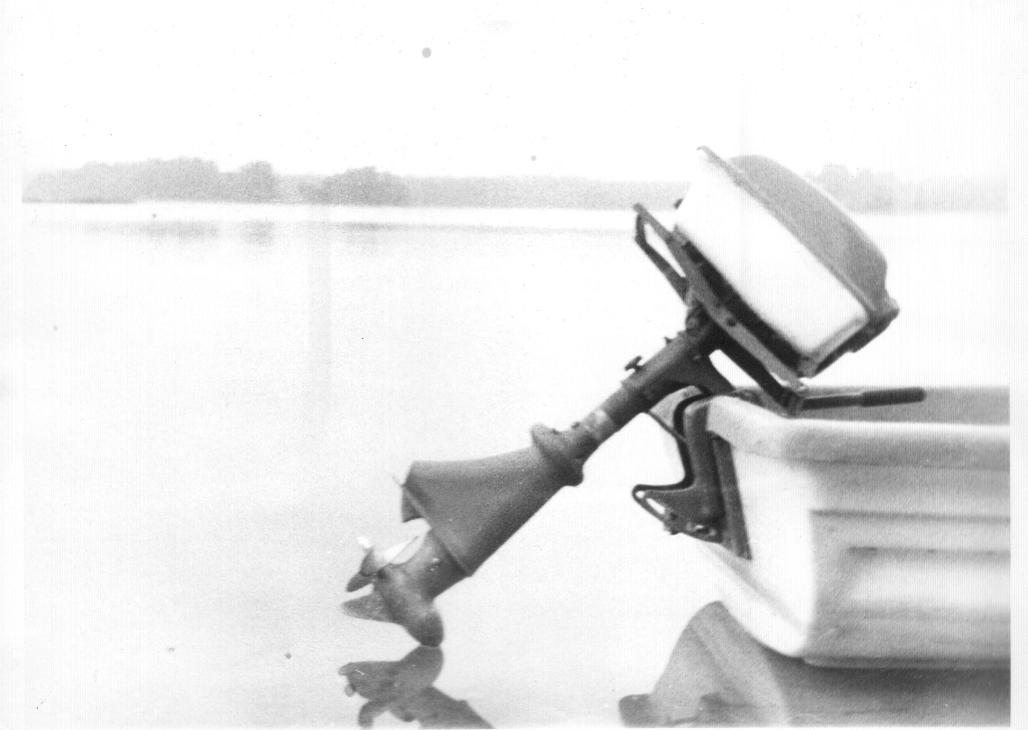 Husqvarna outboard engine from 1958